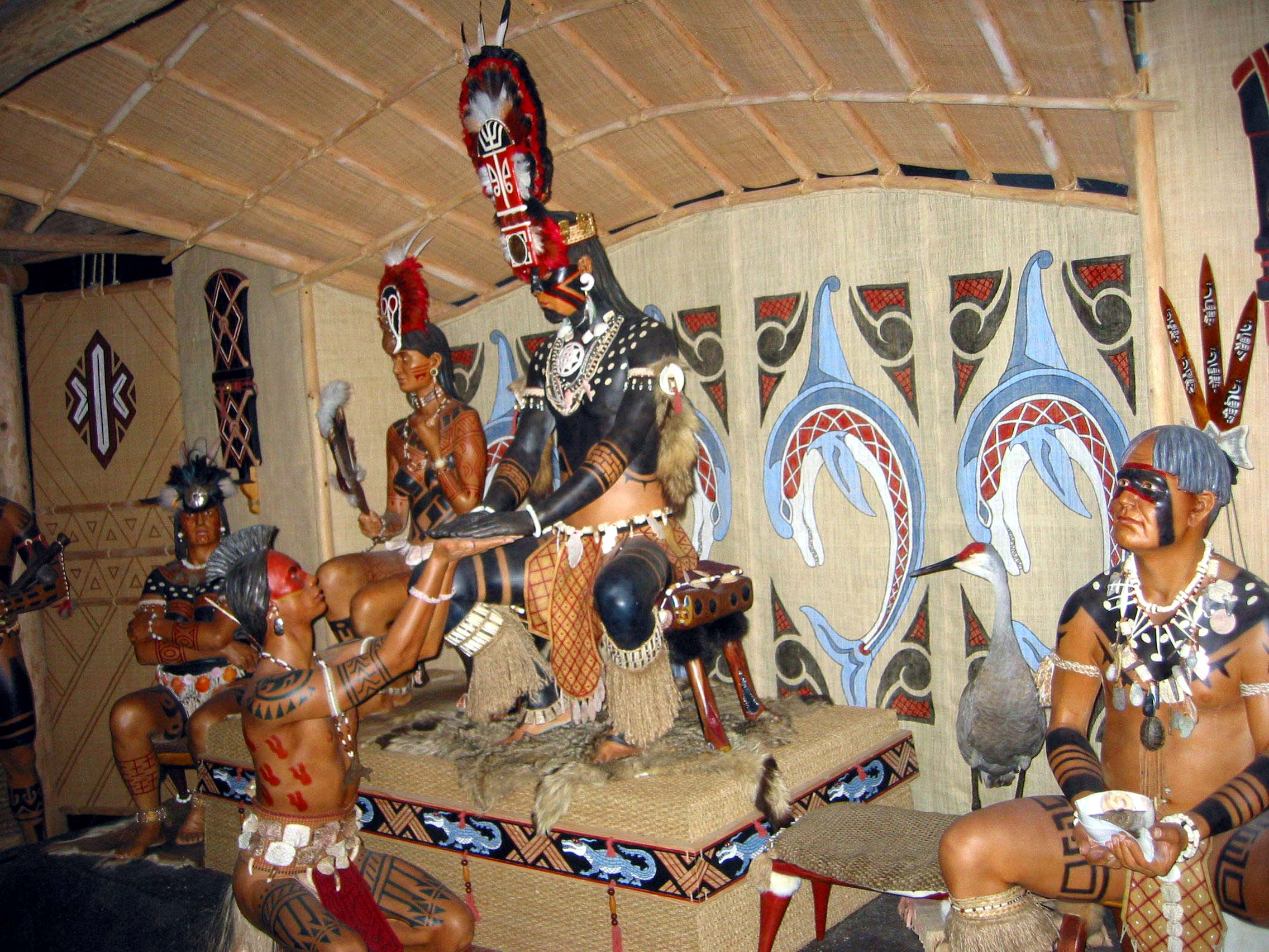 Diorama of the inside of the hut of the Calusa king receiving tribute from a Tequesta chief in the Southwest Florida Hall, Florida Museum of Natural History, Powell Hall.